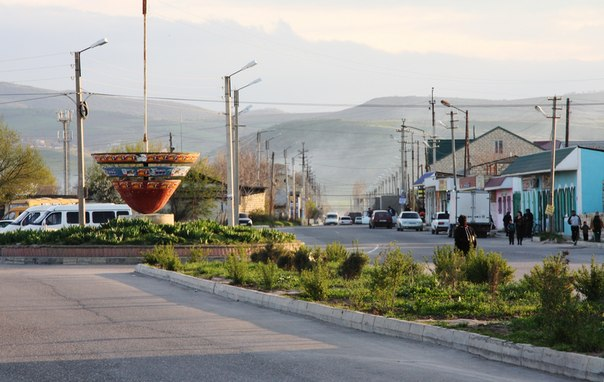 Dagestanskiye Ogni, prospekt Kalinina